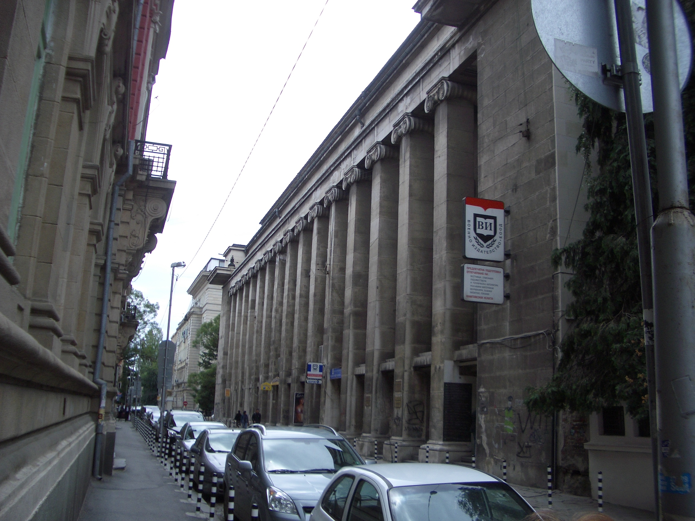 Building of the Military_Publishing_House,Sofia 12 Ivan_Vazov str